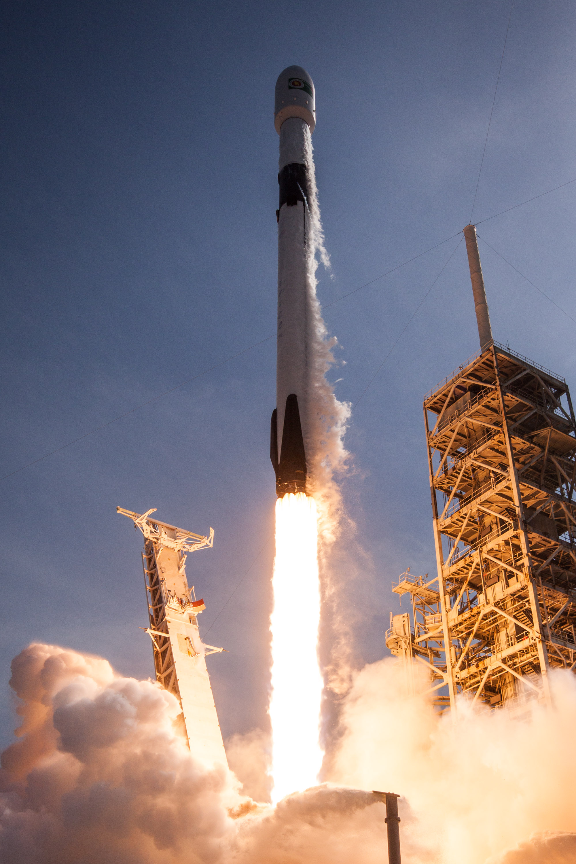 Bangabandhu Satellite-1, is a Bangladeshi communication satellite launched from Kennedy Space Center Launch Complex 39A at 20:14 UTC on May 11, 2018, on a SpaceX Falcon 9 Block 5 launch vehicle. This if the very first satellite of the country. The satellite is to be used television, telephone & Internet service purposes. For more information, visit